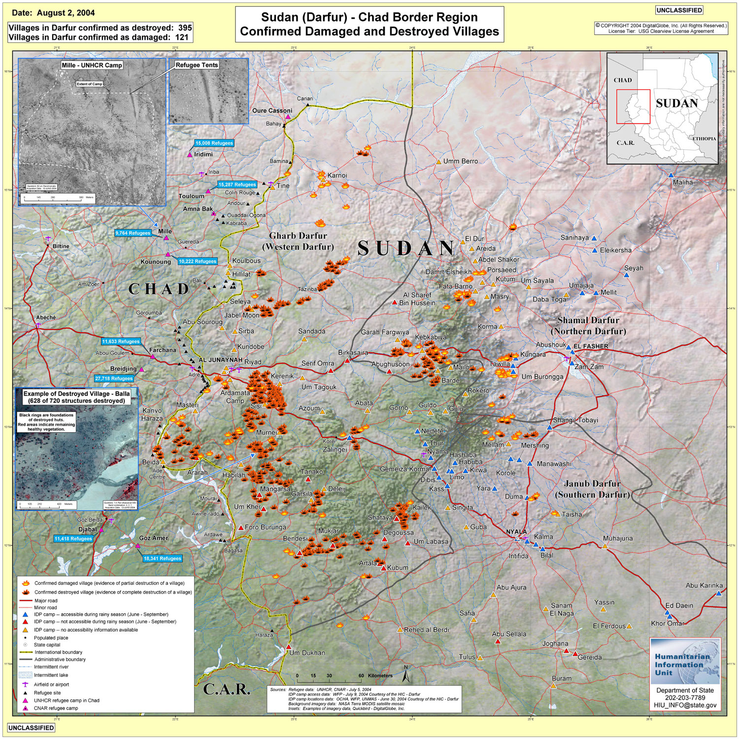 Map of Darfurian villages destroyed in the Darfur conflict (Sudan, August 2, 2004); declassified from the US State Department with DigitalGlobe satellite, image included. Text states: "Media and press use and/or dissemination of this data and/or product has been authorized by DigitalGlobe, Inc. Please credit "DigitalGlobe, Inc. and Department of State via USAID".